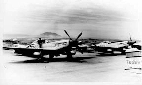 21st Fighter Group at Iwo Jima (Mount Suribachi in the background) (USAAF Photo)